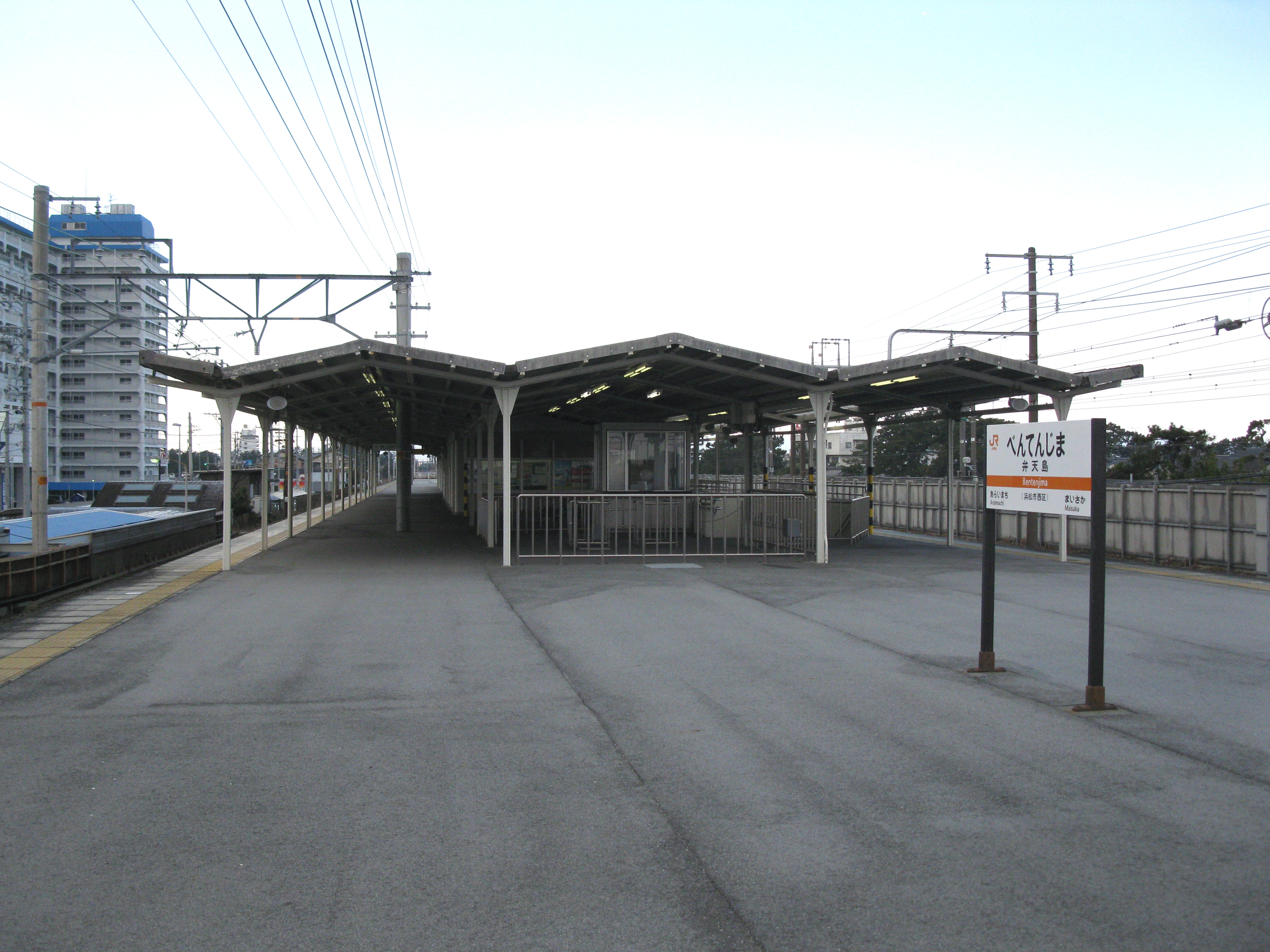 Bentenjima Station platform (Central Japan Railway(JR Central) Tōkaidō Main Line)